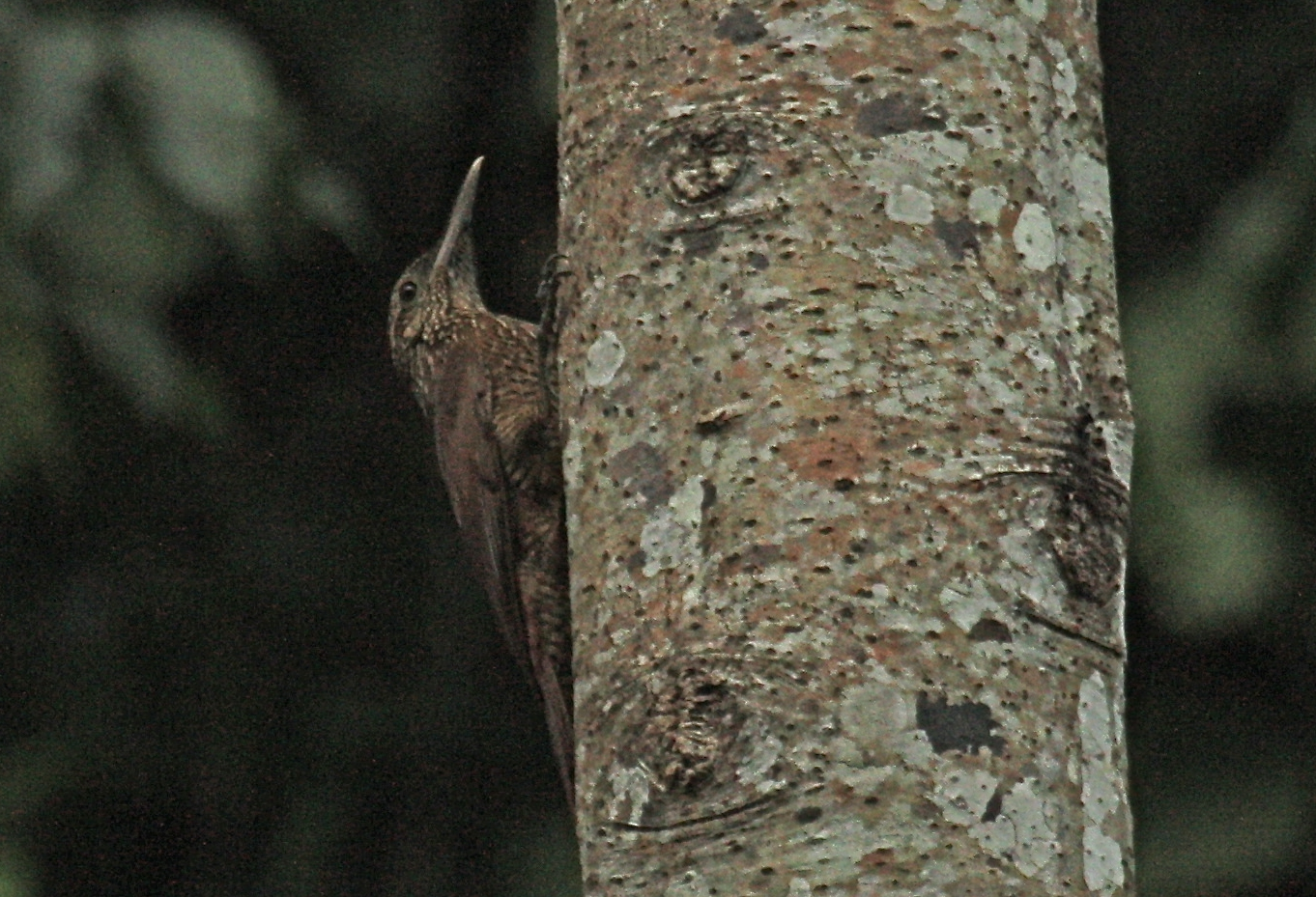 Amazonia Lodge, Peru